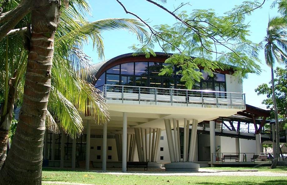 HQ Offices of SPC in Noumea